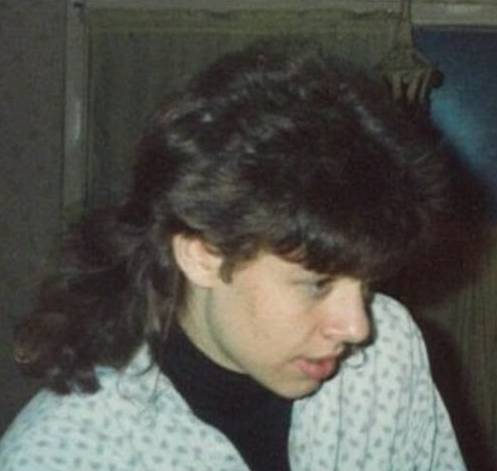 Man with a mullet hair style.